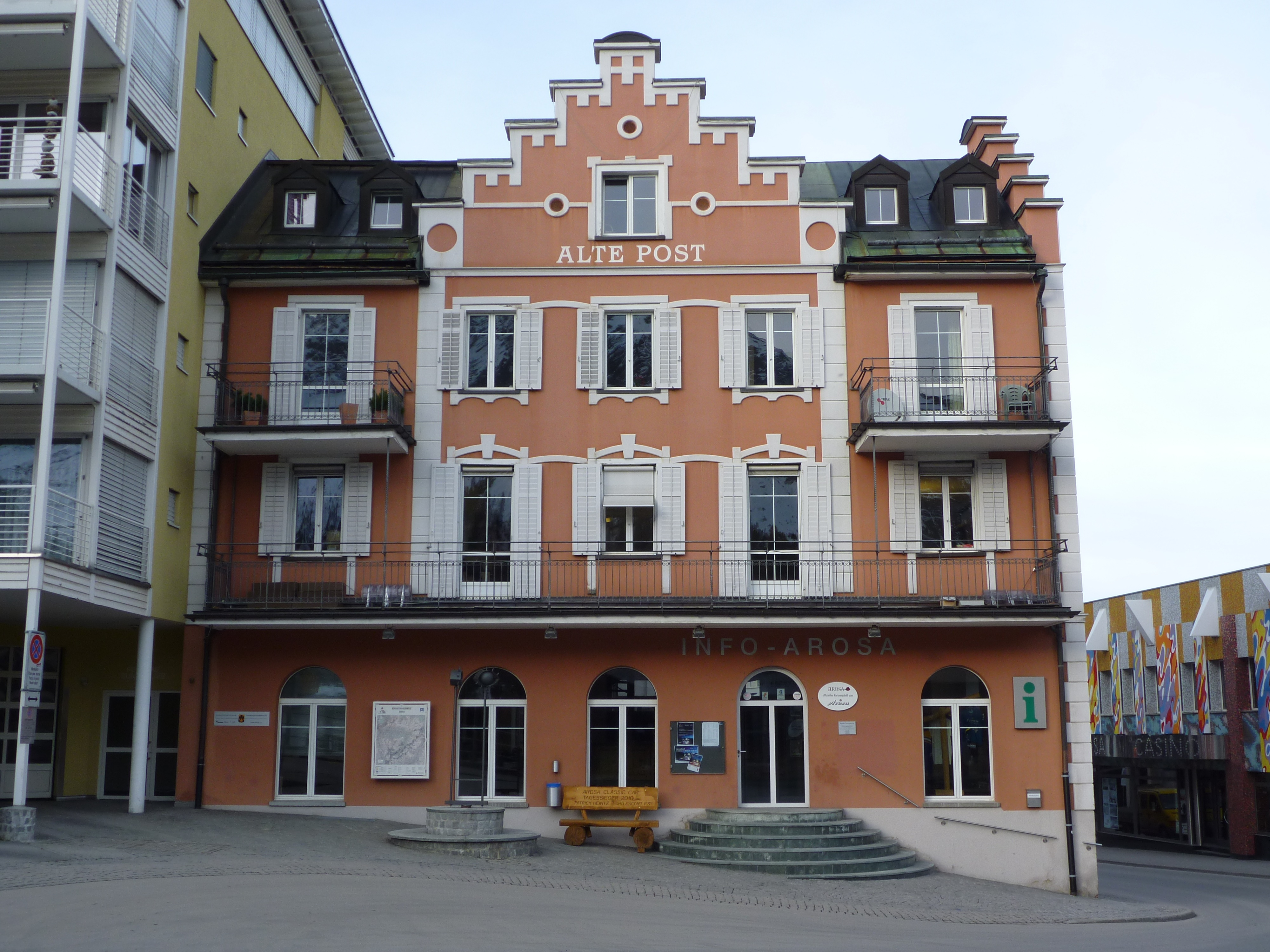 "The Alte Post" in Arosa, departing point of the public stagecoach to Chur